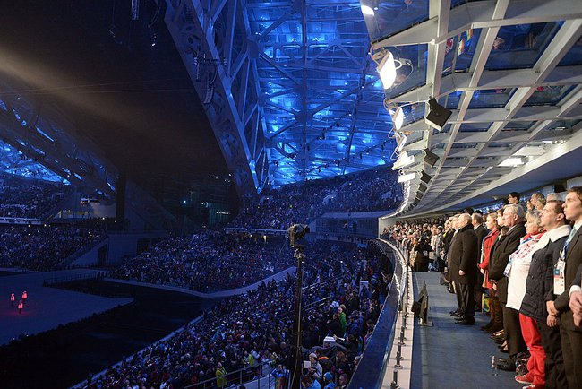 2014 Winter Olympics opening ceremony from inside Fisht Olympic Stadium, Sochi, Russia (2014-02-07)